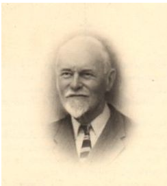 Georges Thibout is a deputy of France from 1919 to 1924